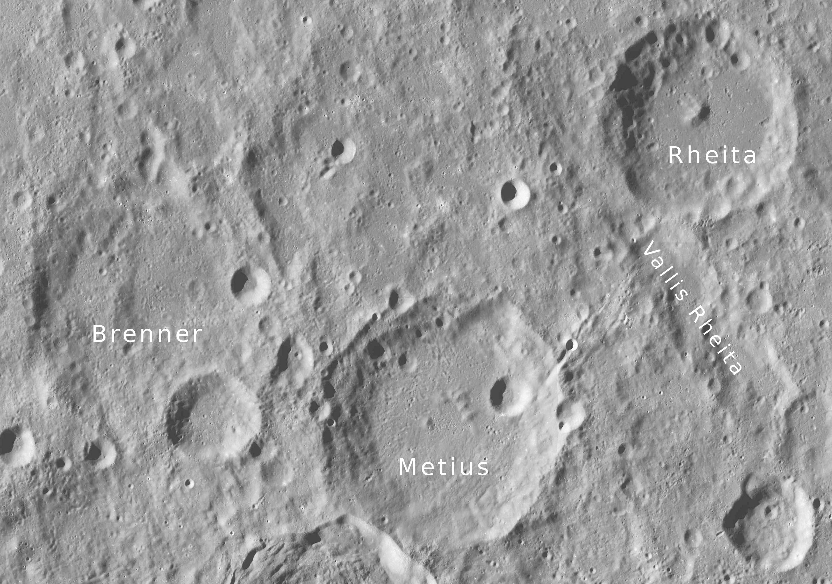 Craters Brenner, Metius and Rheita (detail of LRO - WAC global moon mosaic; Mercator projection)